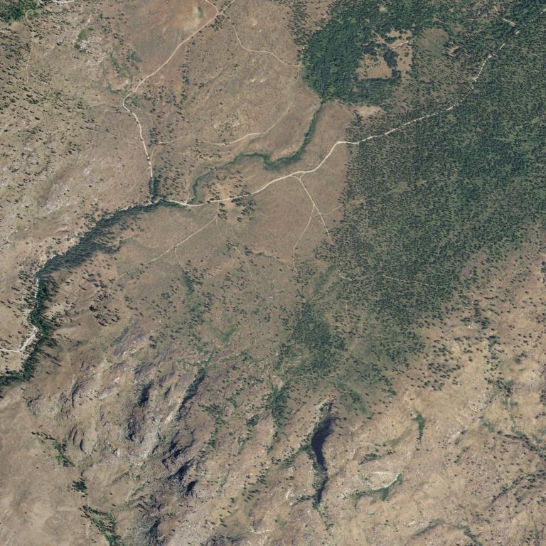 USGS digital orthophoto of North Omak in the U.S. state of Washington